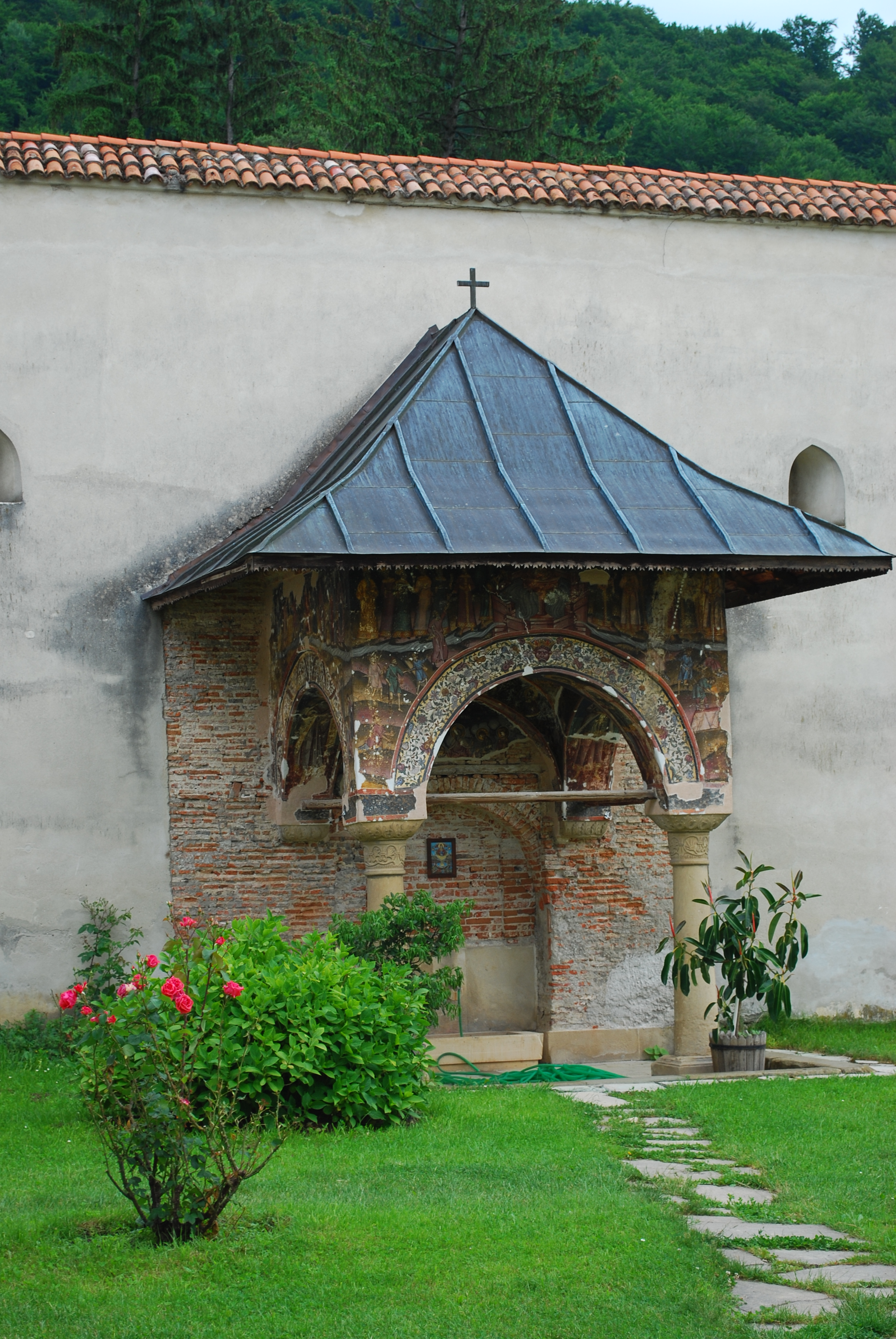 Water fountain at the Horezu monastery, Vâlcea County, RomaniaRomână: Fântână la mănăstirea Horezu, judeţul Vâlcea, România 08